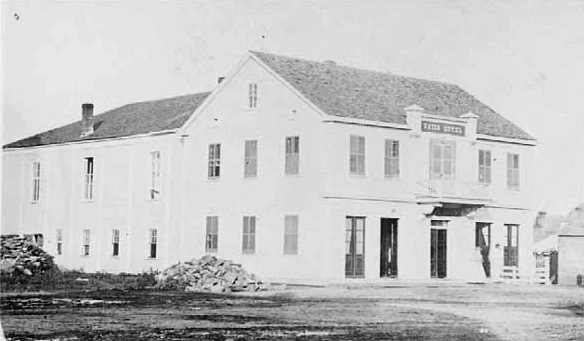 The Union Hotel, predecessor of the Grand Hotel, New Ulm, Minnesota, USA.